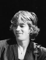 Hal Lindes performing with Dire Straits in Newcastle City Hall